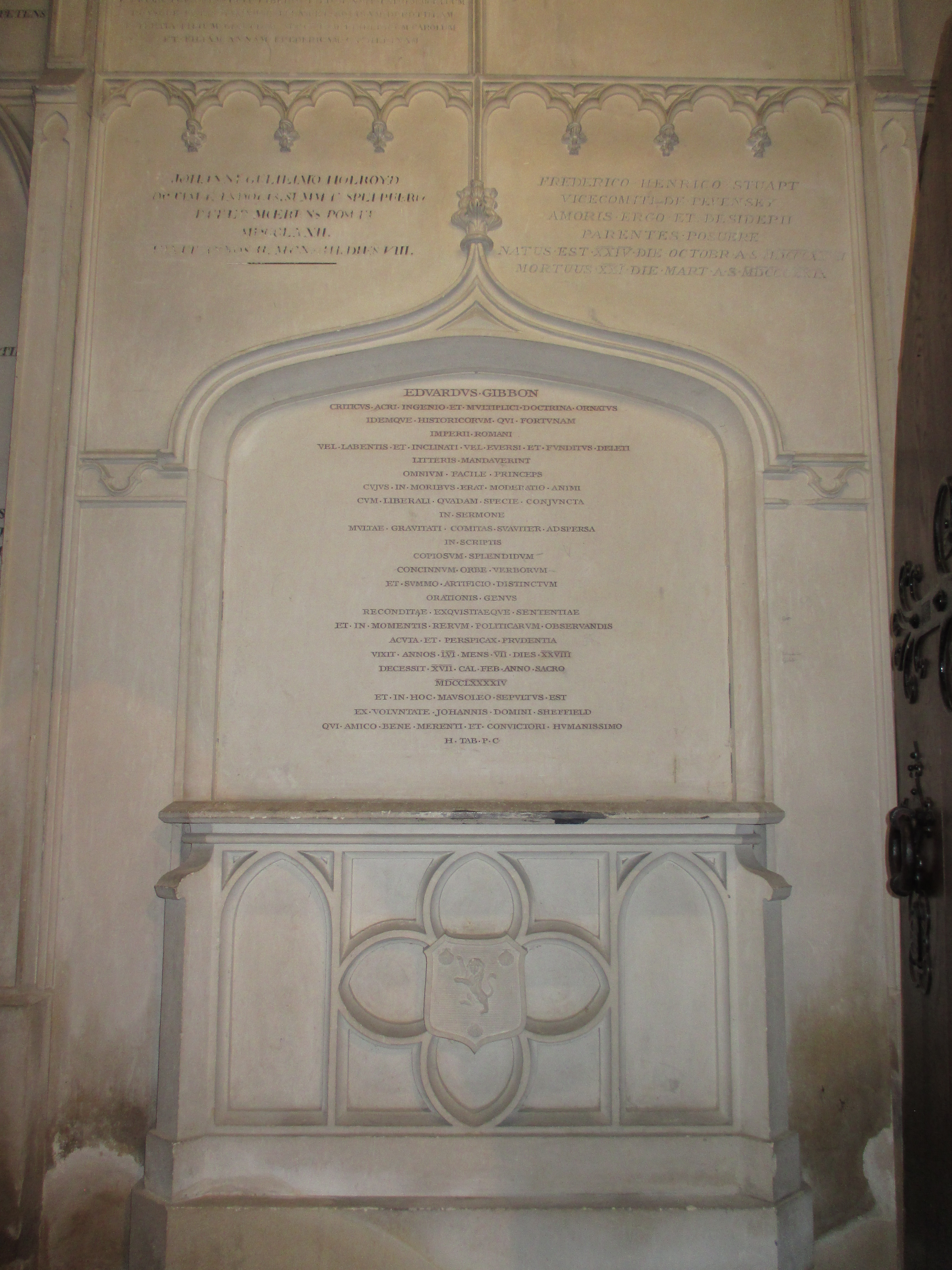 Memorial tablet to the historian Edward Gibbon on the side of the Sheffield Mausoleum, St Andrew and St Mary the Virgin's Church, Fletching, East Sussex. The epitaph was written by Samuel Parr.